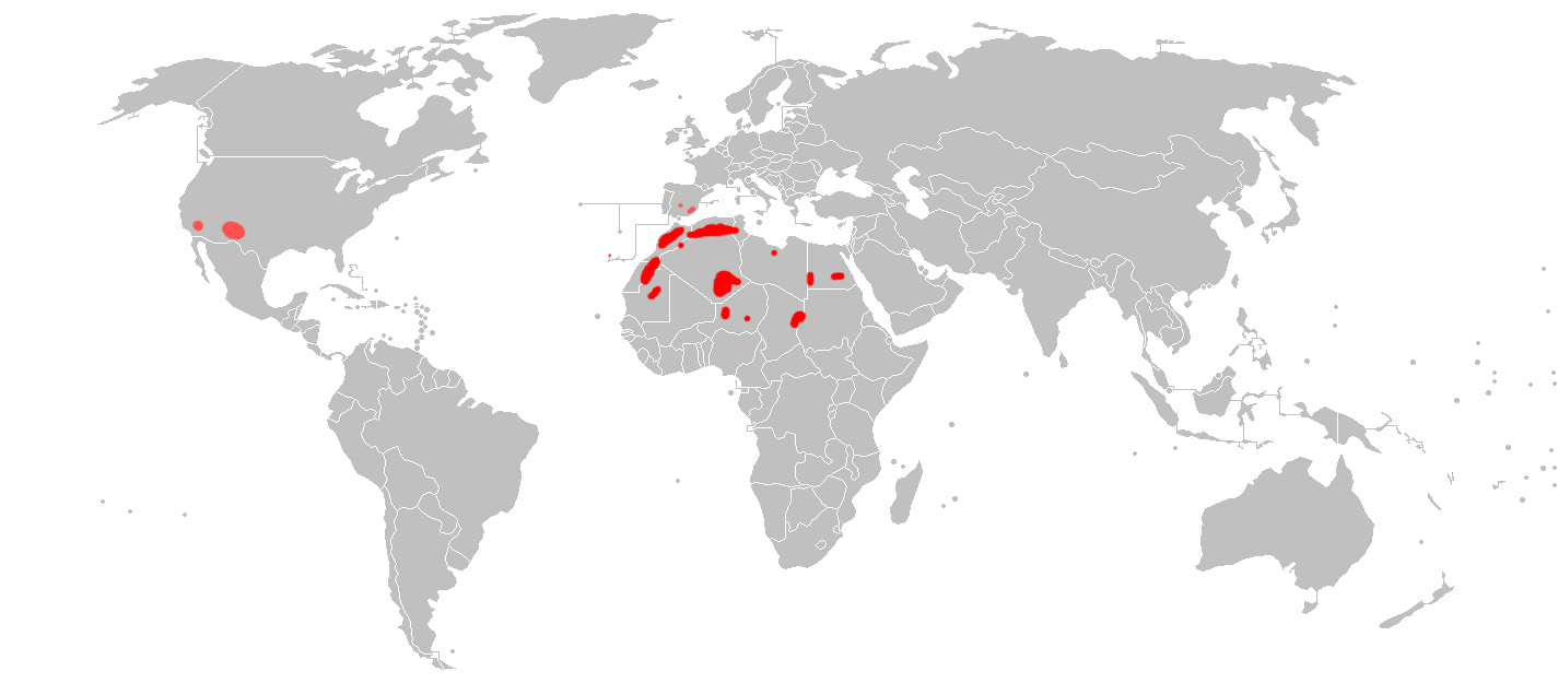 Distribution map of Ammotragus lervia. Original zone (red) and zone where it has been introduded (pink).